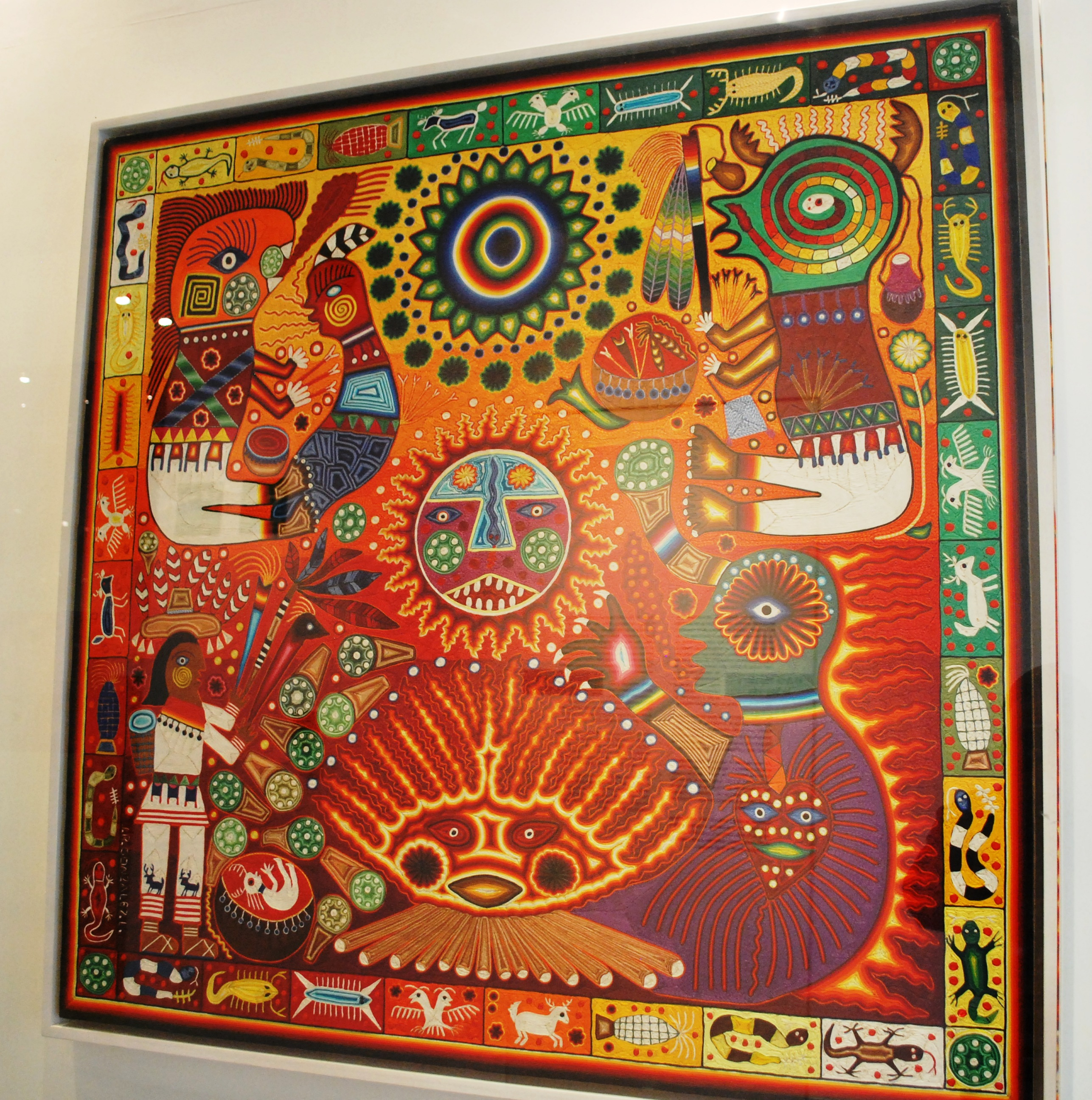 Example of Huichol string art on display at the Museum de Artes Populares in Mexico City